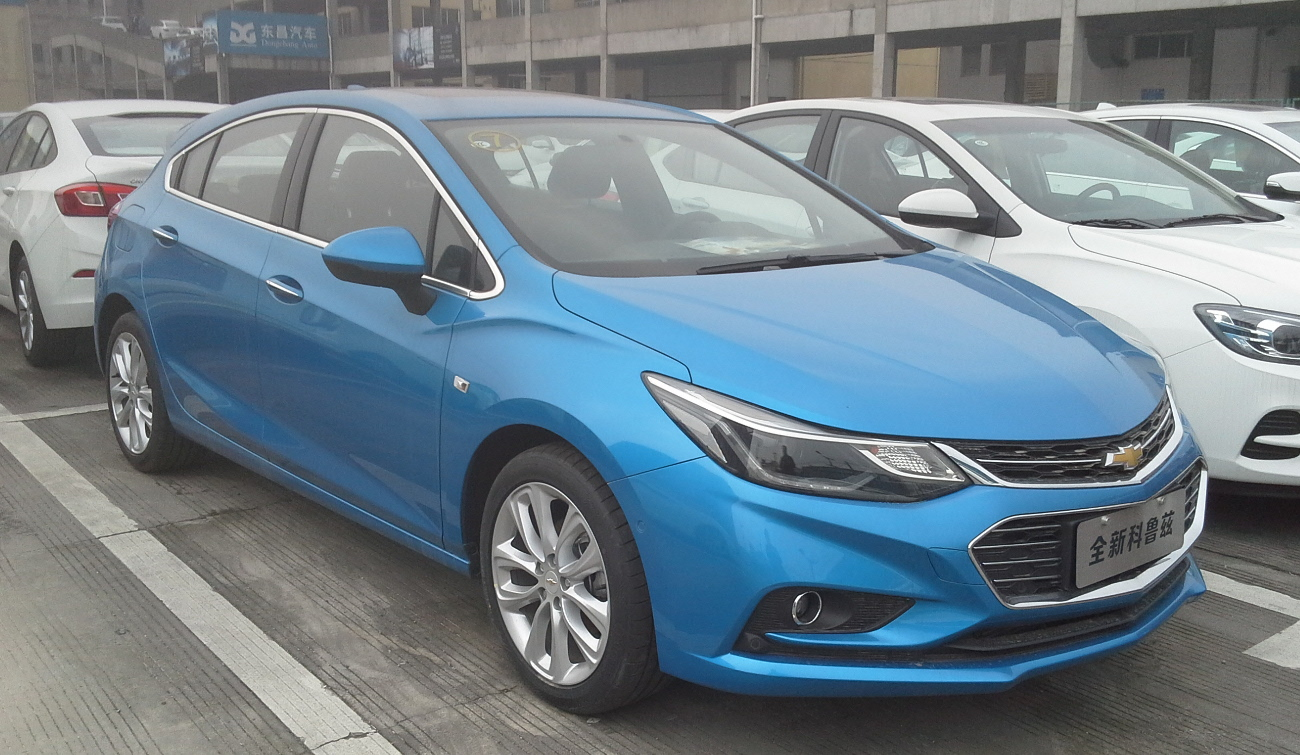 Chevrolet Cruze J400 hatch photographed in Shanghai, China.